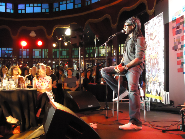 Nile Rodgers talking at the Edinburgh International Book Festival, 2012